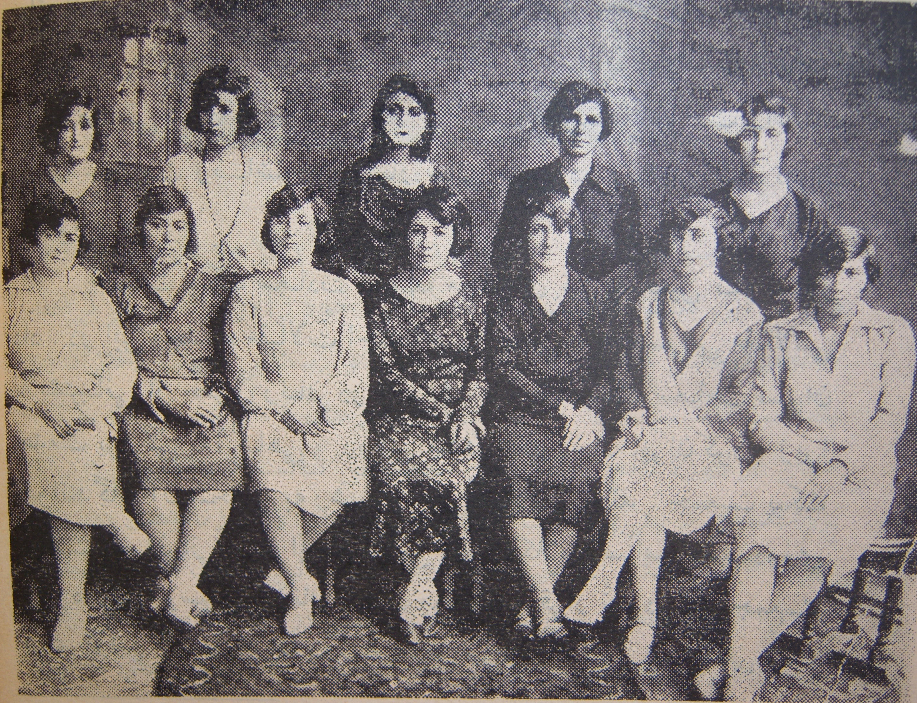 Board of directors of Jam'iyat-e Nesvan-e Vatankhah, a women's right association in Tehran (1923-1933)